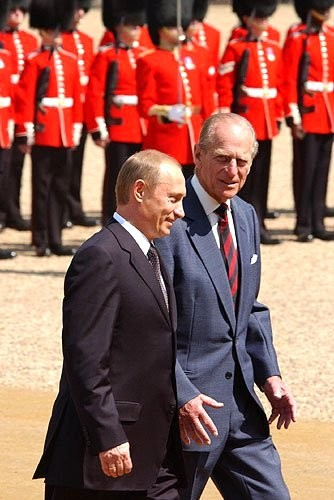 Vladimir Putin's state visit to Great Britain began with the official welcoming ceremony by HM Queen Elizabeth II